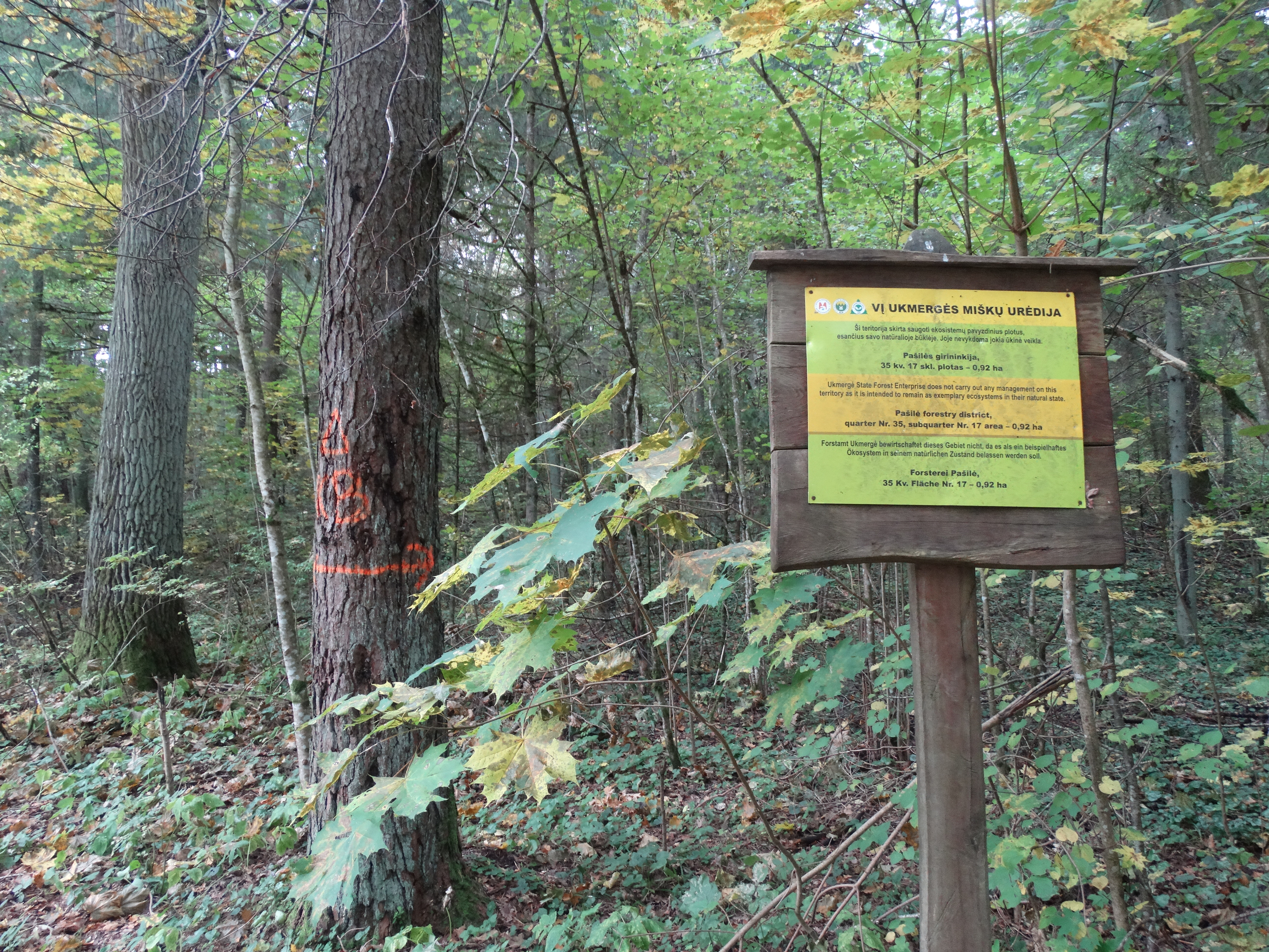 Information board, Pašilė forestry district, Pivonija Forest, Ukmergė district, Lithuania